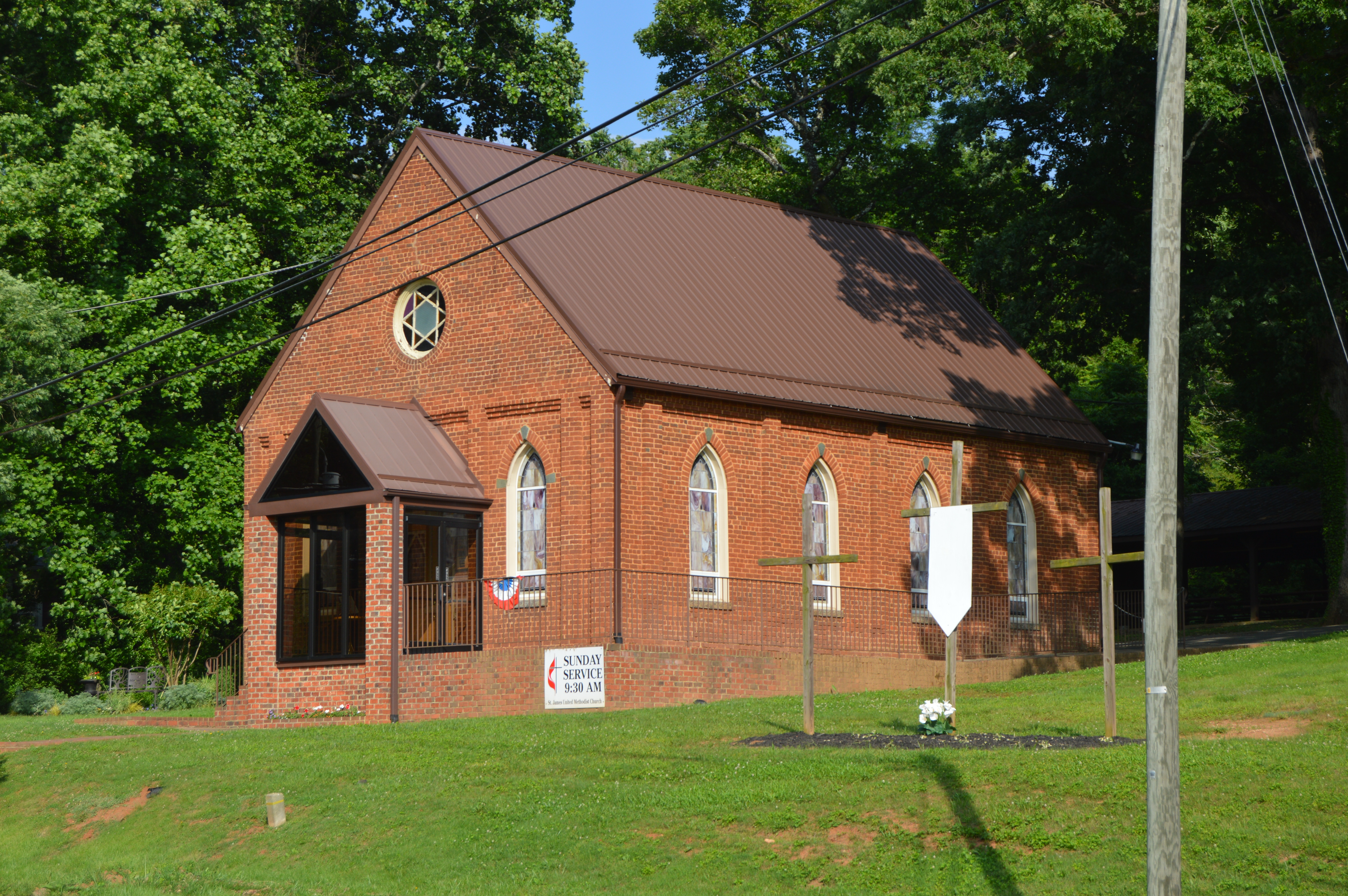 Front and western side of St. James Methodist Church, located on State Route 40 at Ferrum in Franklin County, Virginia, United States.